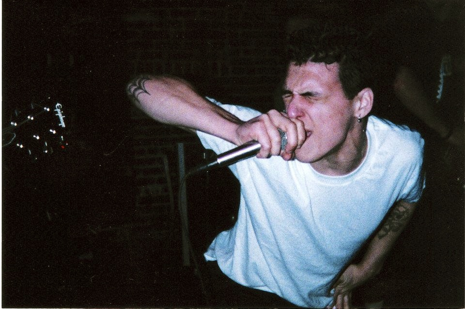 Nick Traina performing with Link 80.